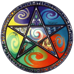 This picture represents the pentacle and the five elements of the cosmos. The five elements are water, fire, earth, air, and spirit. The spirit is the power and the energy of the goddess that pervades all the dimensions of existence. The four elements are the main forces on which is based life, and they're metaphors of the phases of manifestation of the energy of the deity. In some Wiccan esoteric rituals, the wachtowers, the guardian spirits of the four elements, are invoked to catalyze the energy of the goddess. A new background transparent version of the original Image:Wiccan_five_elements.PNG